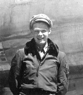 Photo of 2nd Lt. Thomas J. King while serving in US Army Air Force, Pacific Theater, 1945